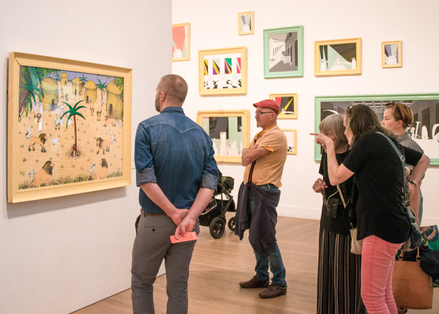 Marie-Louise Ekman's big retrospective exhibition at the Modern Museum 2017.